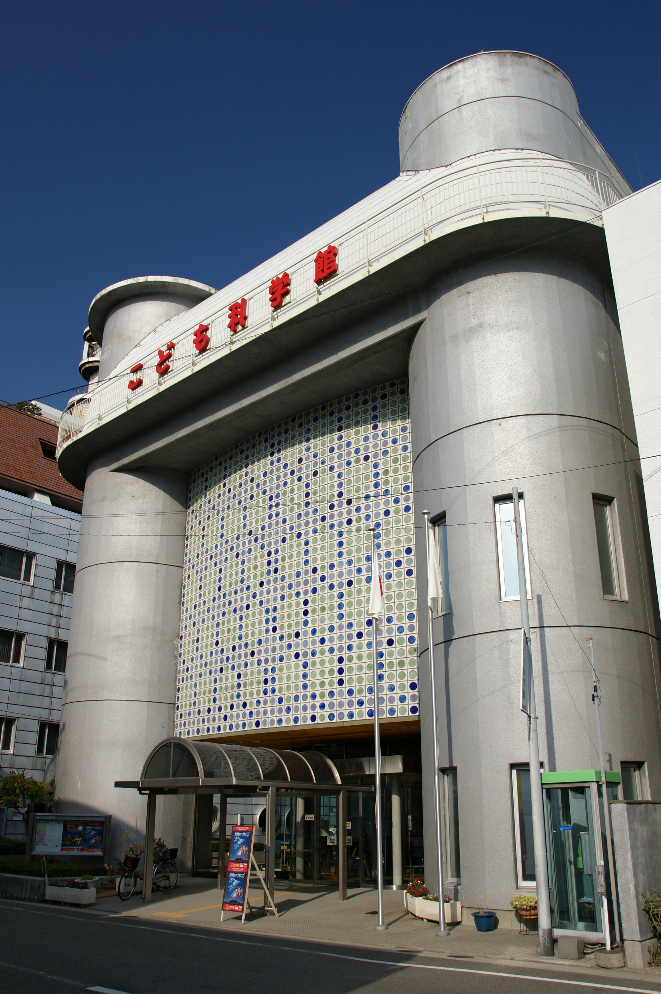 Wakayama City Children's Museum, Wakayama, Wakayama prefecture, Japan